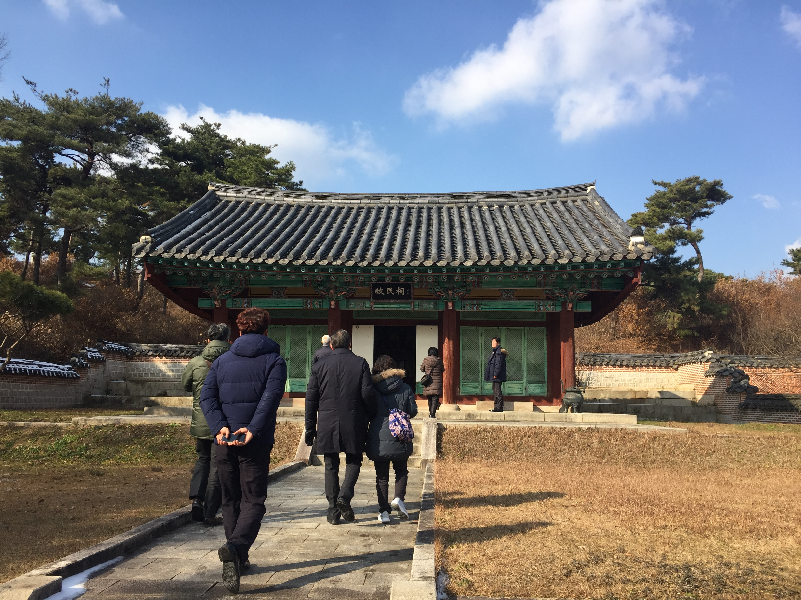 It is a shrine in Haehakri of Deokcheon-myeon, Jeongeup-dong, and is filled with tablets from the Dongchuk peasant army. Citizen 's Day - the tribute of the peasant troops of several people, including Chachibu and Son Hua - jung who participated in the battle of Hwangtohyeon.